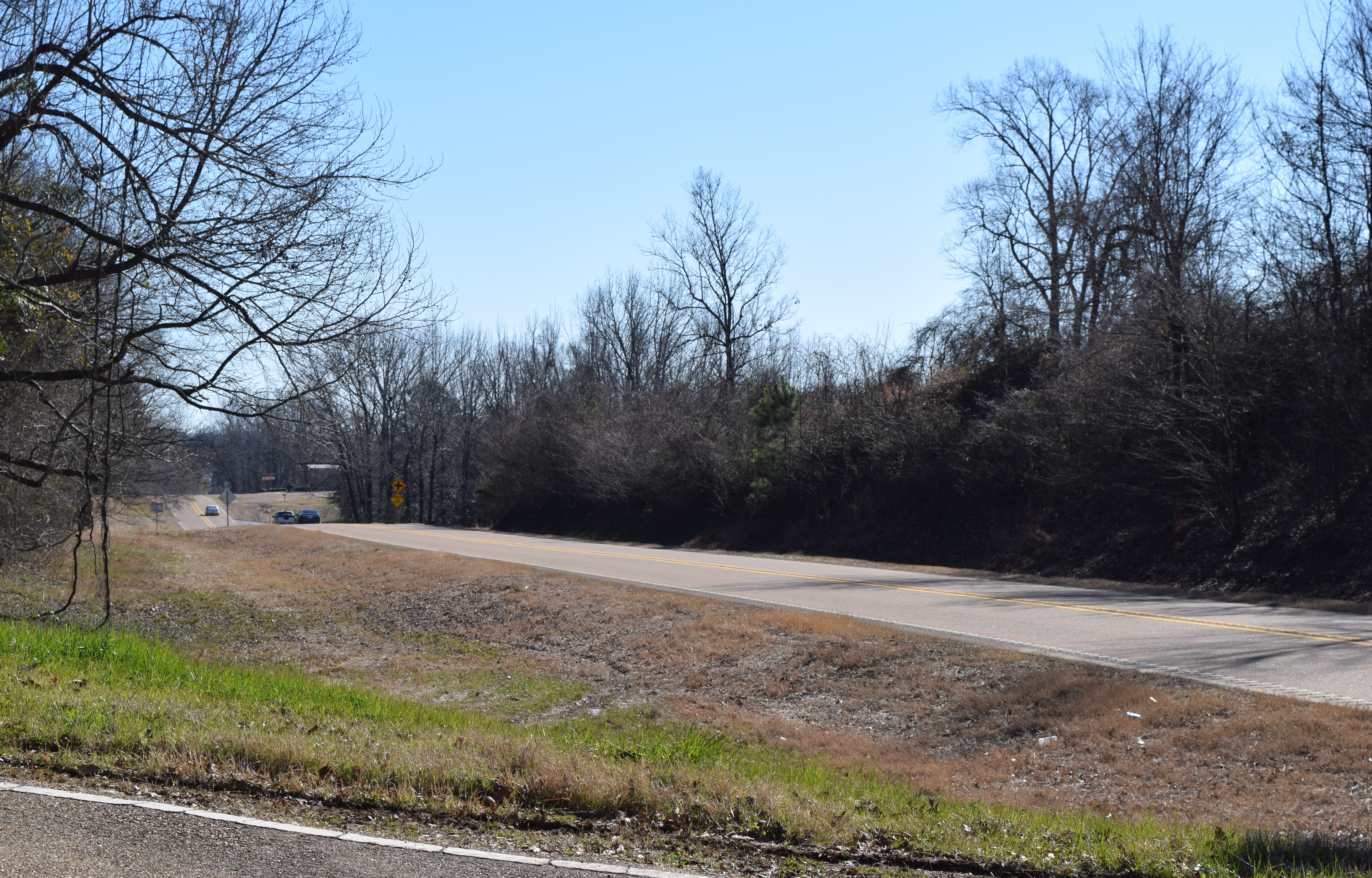 Looking east on Mississippi Highway 8 from Hugh White State Park Road in Grenada County, Mississippi